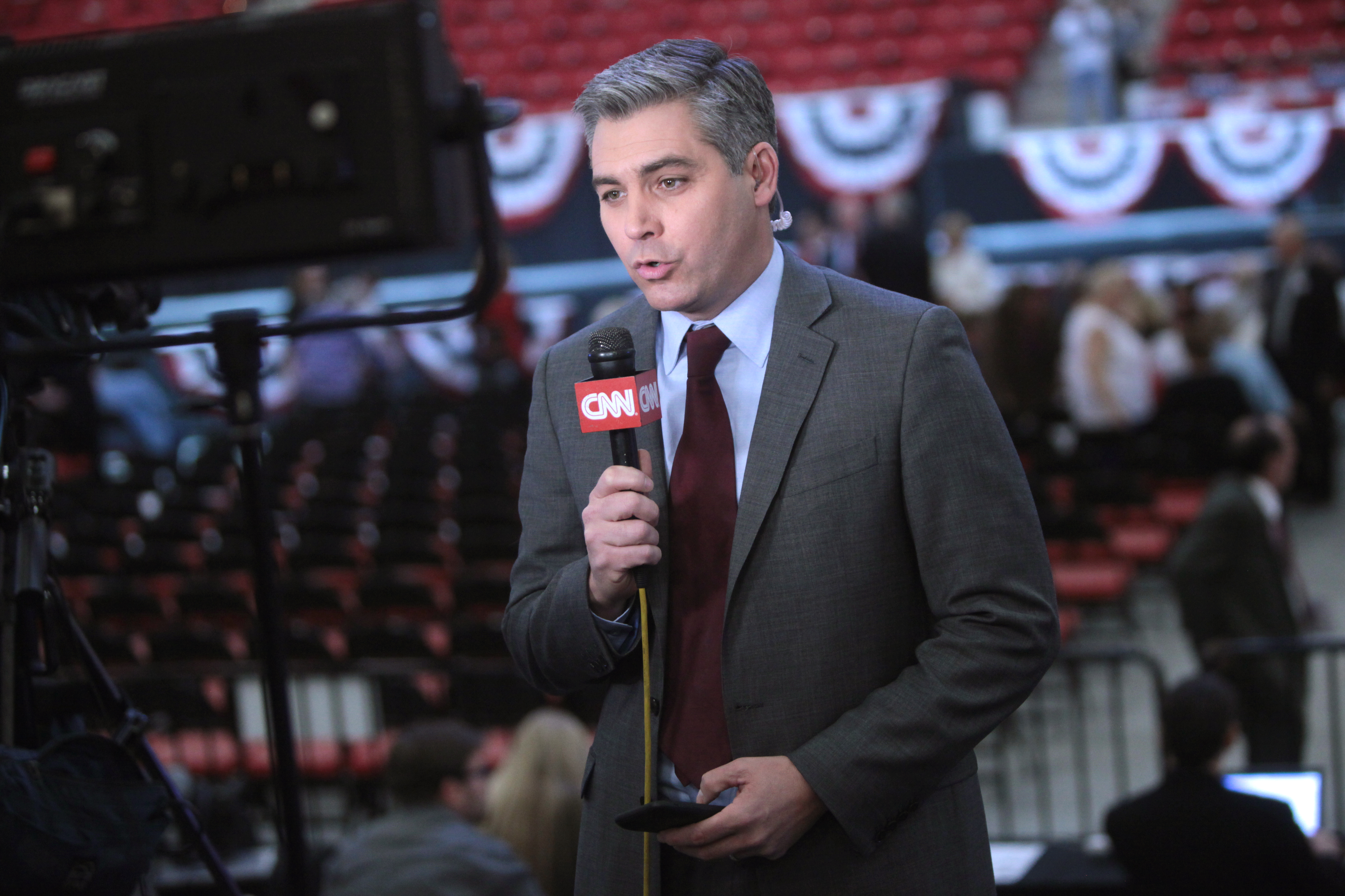 Jim Acosta speaking at a campaign rally for Donald Trump at the South Point Arena in Las Vegas, Nevada.